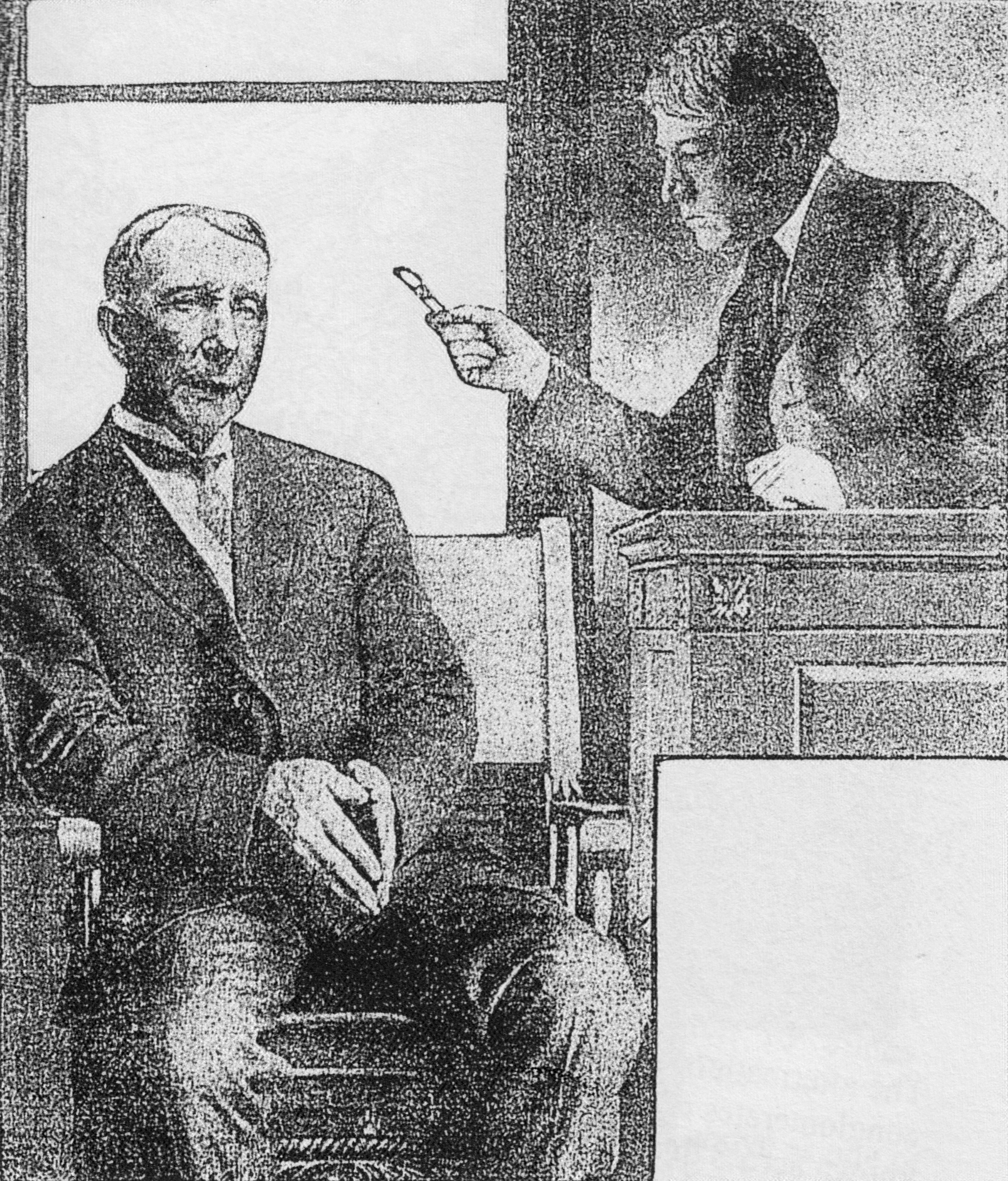 Judge Kenesaw Mountain Landis wags his pen at John D. Rockefeller, who is sitting in the witness stand, during the Standard Oil case on July 6, 1907. This image was first published in the Chicago Examiner (July 7, 1907).